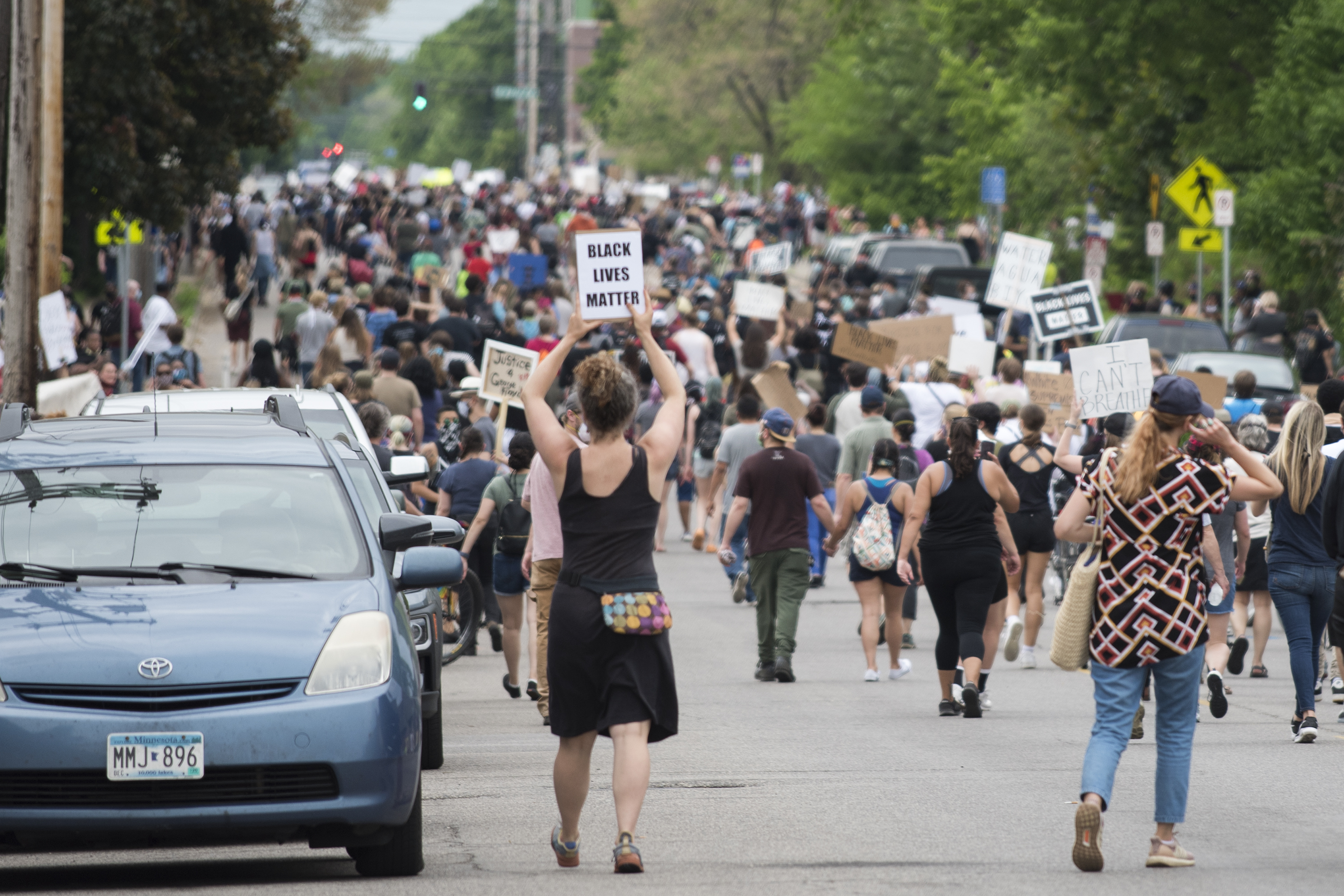 Minneapolis, Minnesota May 26, 2020 Thousands gathered on foot and in cars in south Minneapolis to protest against police violence and call for justice for George Floyd. On May 25, Minneapolis Police officers arrested George Floyd, handcuffed him, then put a knee on his neck as he said he wasn't able to breath. George Floyd appeared to stop breathing and died soon after. Protesters met in the area of Chicago Avenue and 38th Street, but many blocks in the area had people with signs while others drove by protesting from their cars. People marched east on 38th Street and some worked their way to the Minneapolis 3rd precinct building where there were clashes with police after dark. 2020-05-26 This is licensed under the Creative Commons Attribution License. Give attribution to: Fibonacci Blue